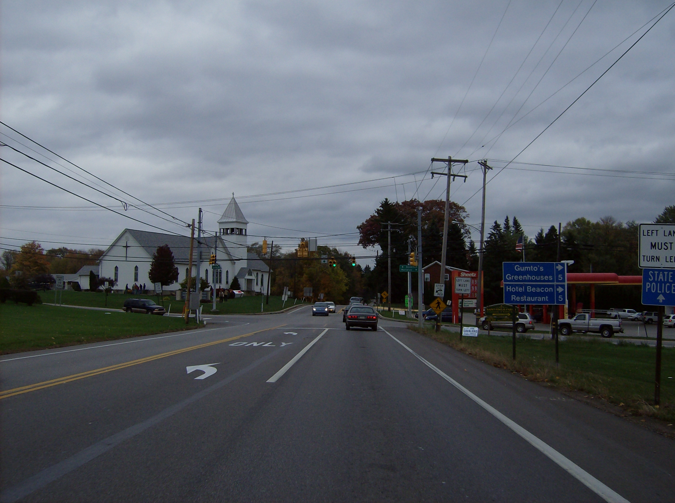 Along eastbound Route 68 in Meridian, a census-designated place in western Butler Township, Butler County, Pennsylvania, United States. Picture taken at Route 68's intersection with Meridian Road in the western part of the community.